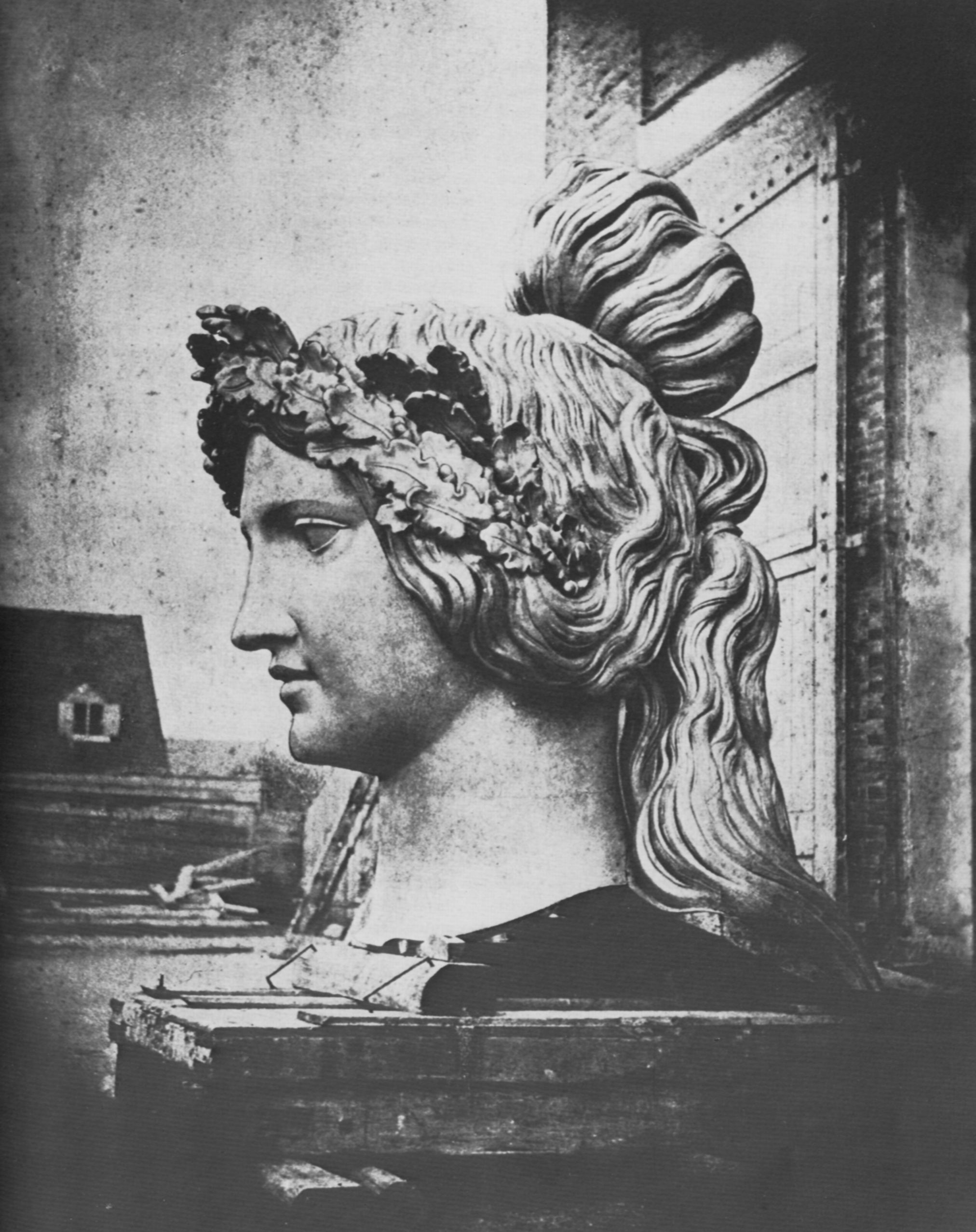 The head of the bronze statue of the Bavaria at Munich in germany